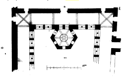 Lavabo Floor Plan from the Cistertian abay of Thoronet Viollet-le-Duc Dictionnaire raisonné de l'architecture française du XIe au XVIe siècle